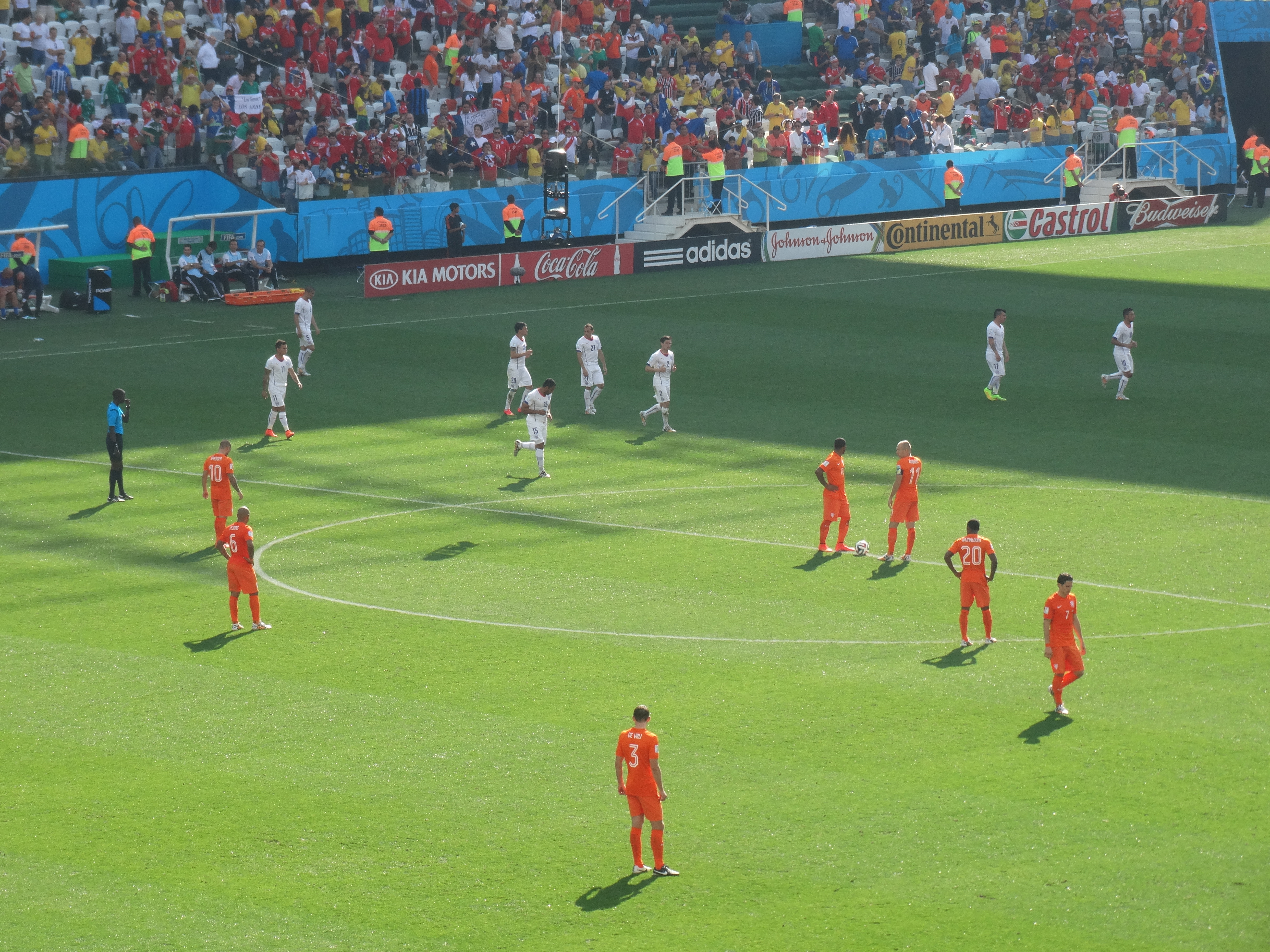 Match 38 - 2014 FIFA World Cup